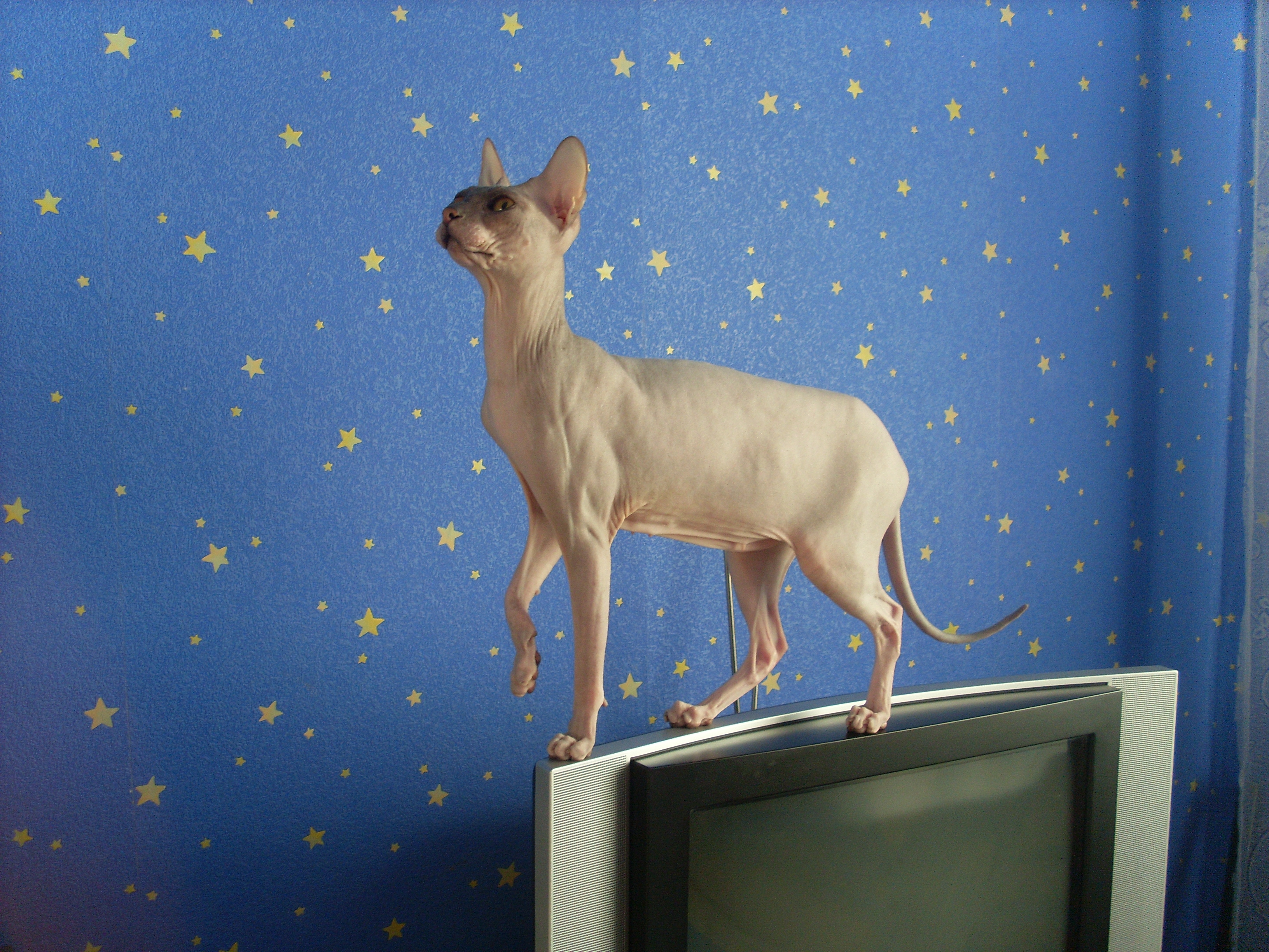 Don sphynx